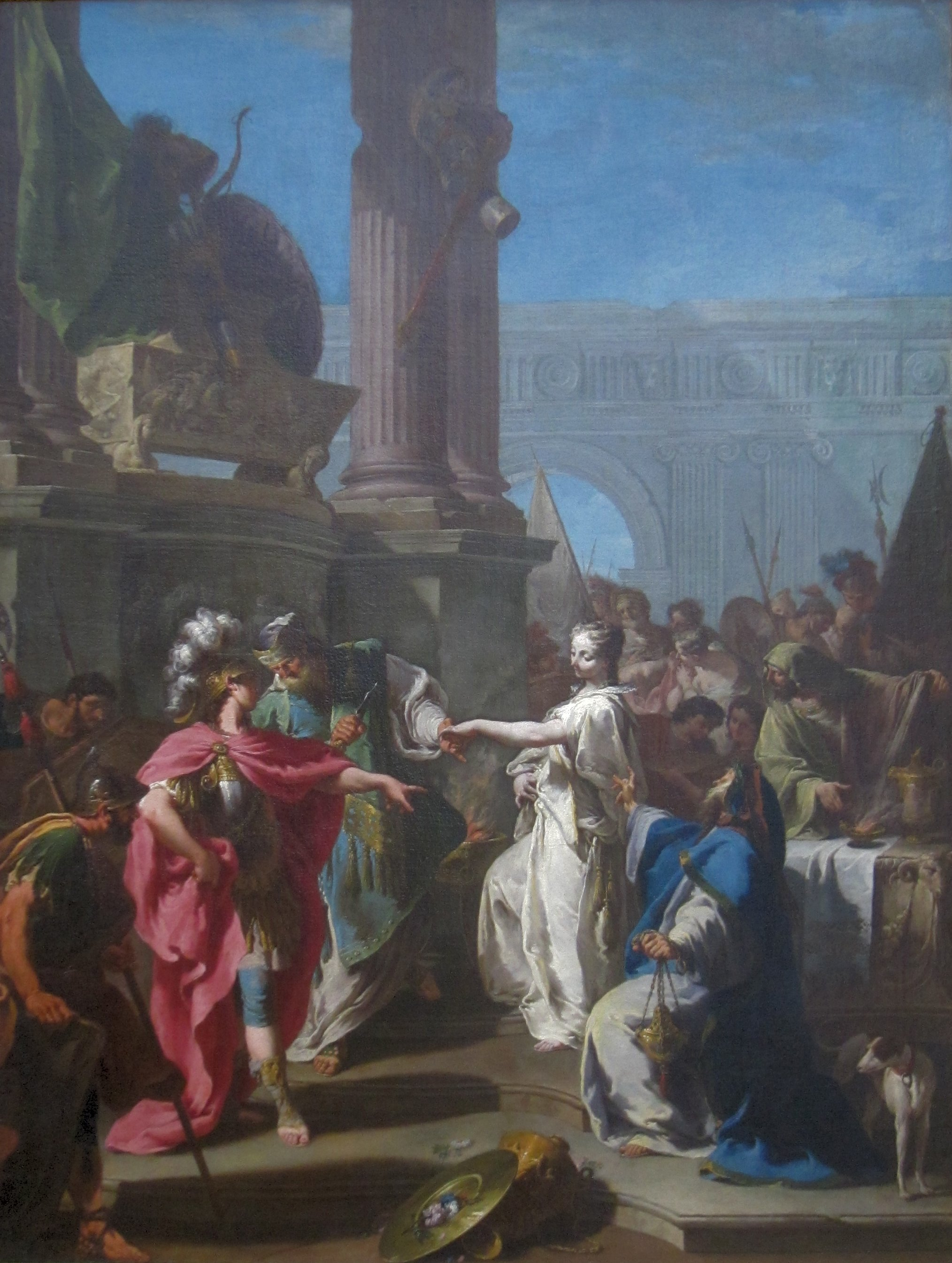 The Sacrifice of Polyxena